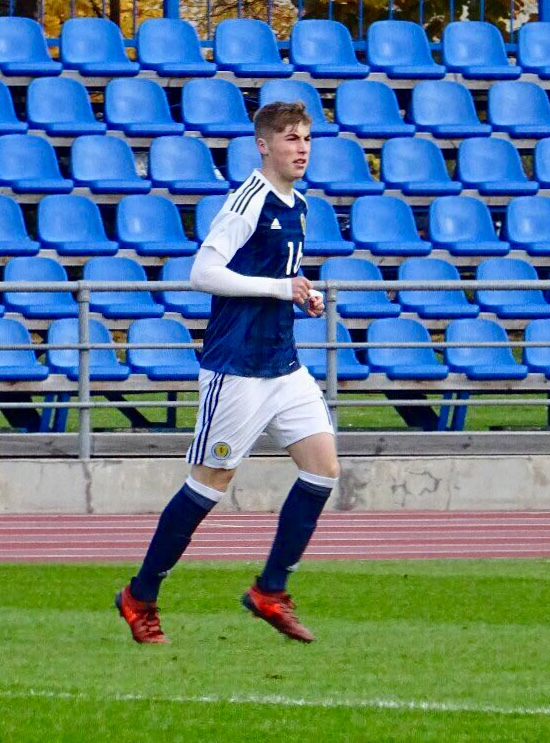 Dean Campbell v Andorra U17s